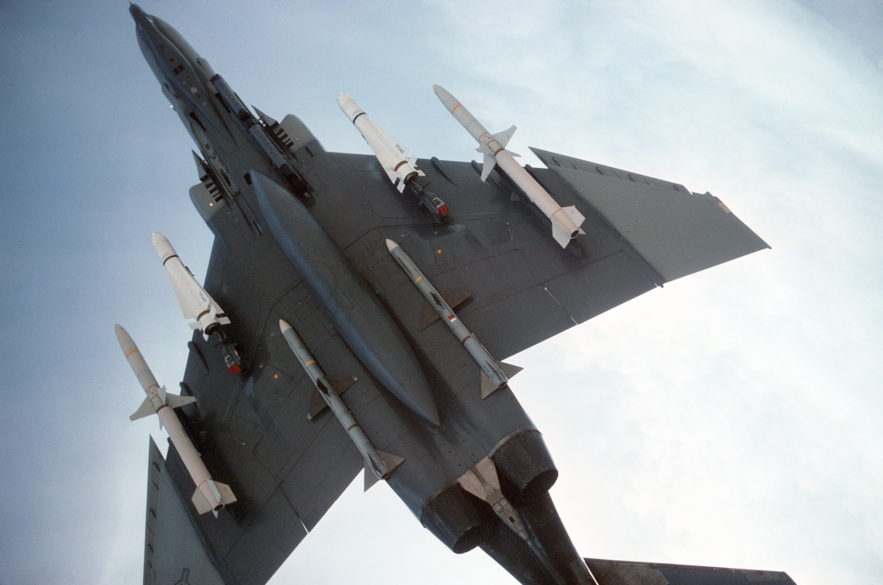 A U.S. Air Force McDonnell Douglas F-4G Wild Weasel Phantom II aircraft from the 37th Tactical Fighter Wing on 9 May 1988 over George Air Force Base, California (USA). The aircraft is armed with two AGM-88 high-speed anti-radiation missile (HARM) missiles, outboard stations, two AGM-65A Maverick missiles, inboard stations, and two AIM-7M Sparrow missiles, rear.